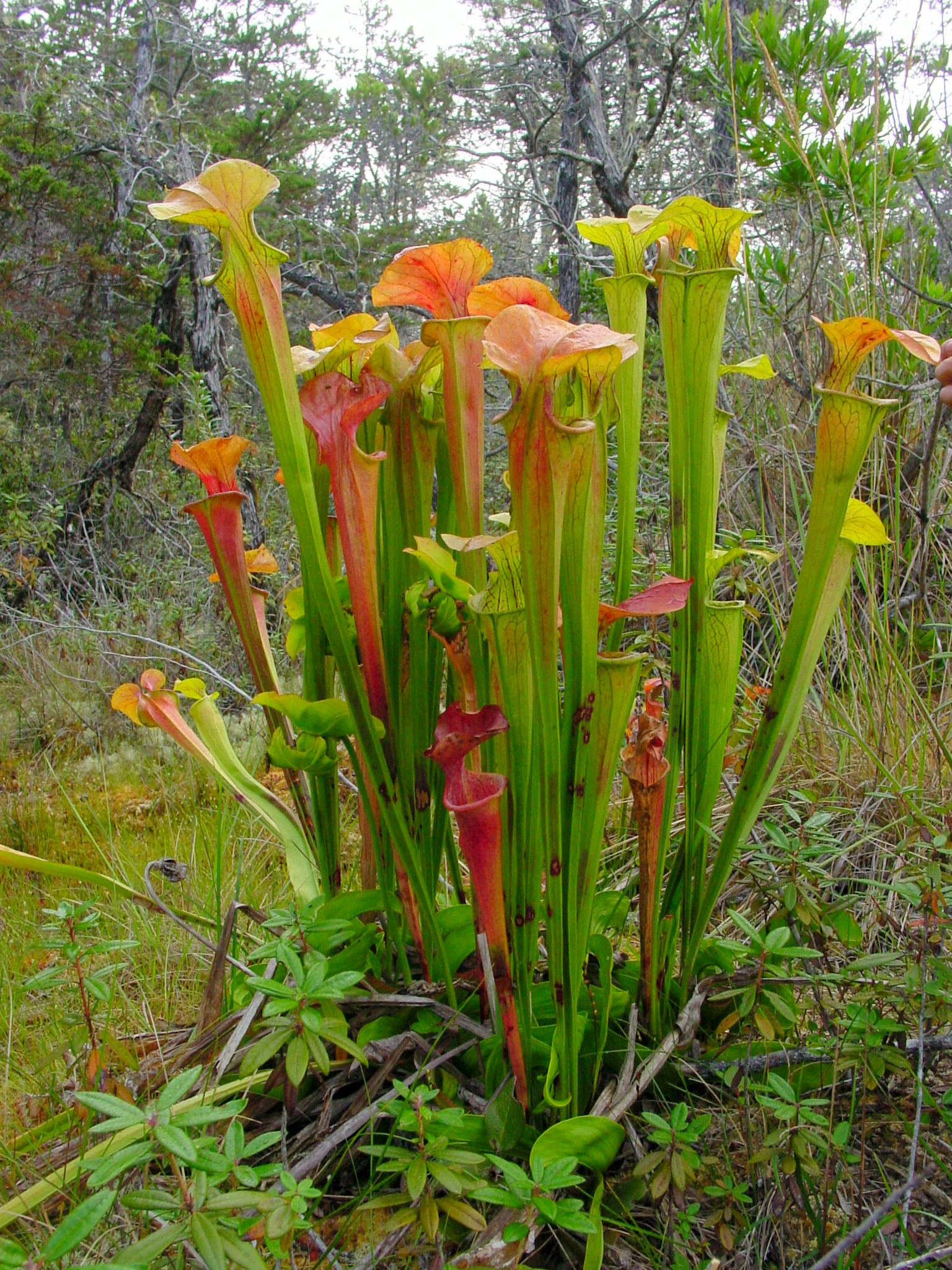 Description:Sarracenia oreophila Photo taken by: Noah Elhardt